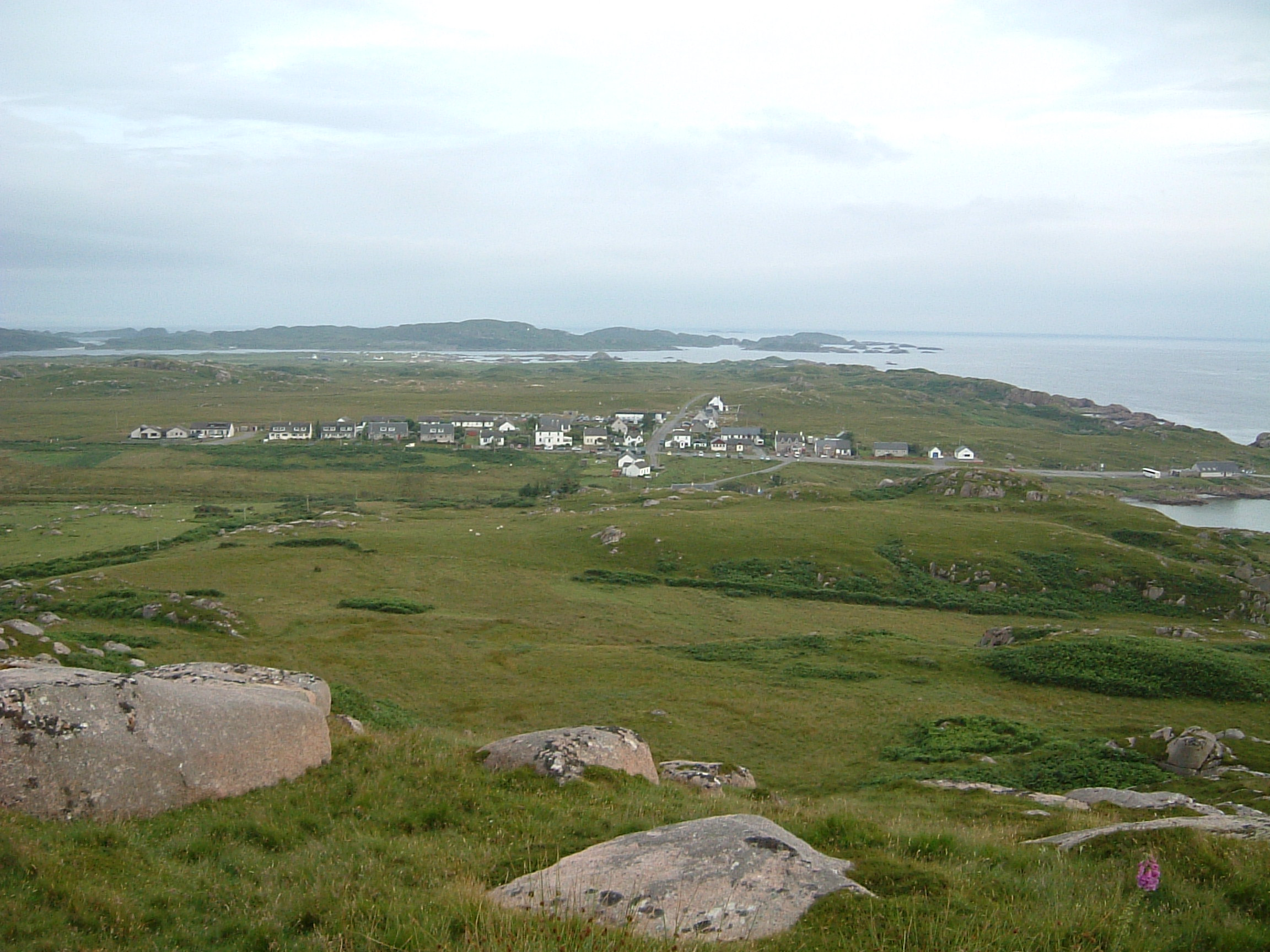 View south over Fionnphort from Tor Mor quarry